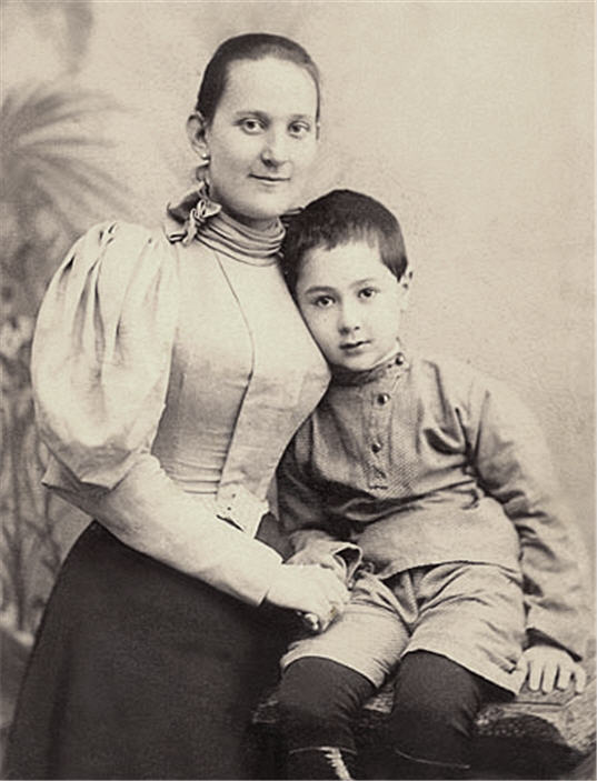 Photo of Dimitri Tiomkin with his mother